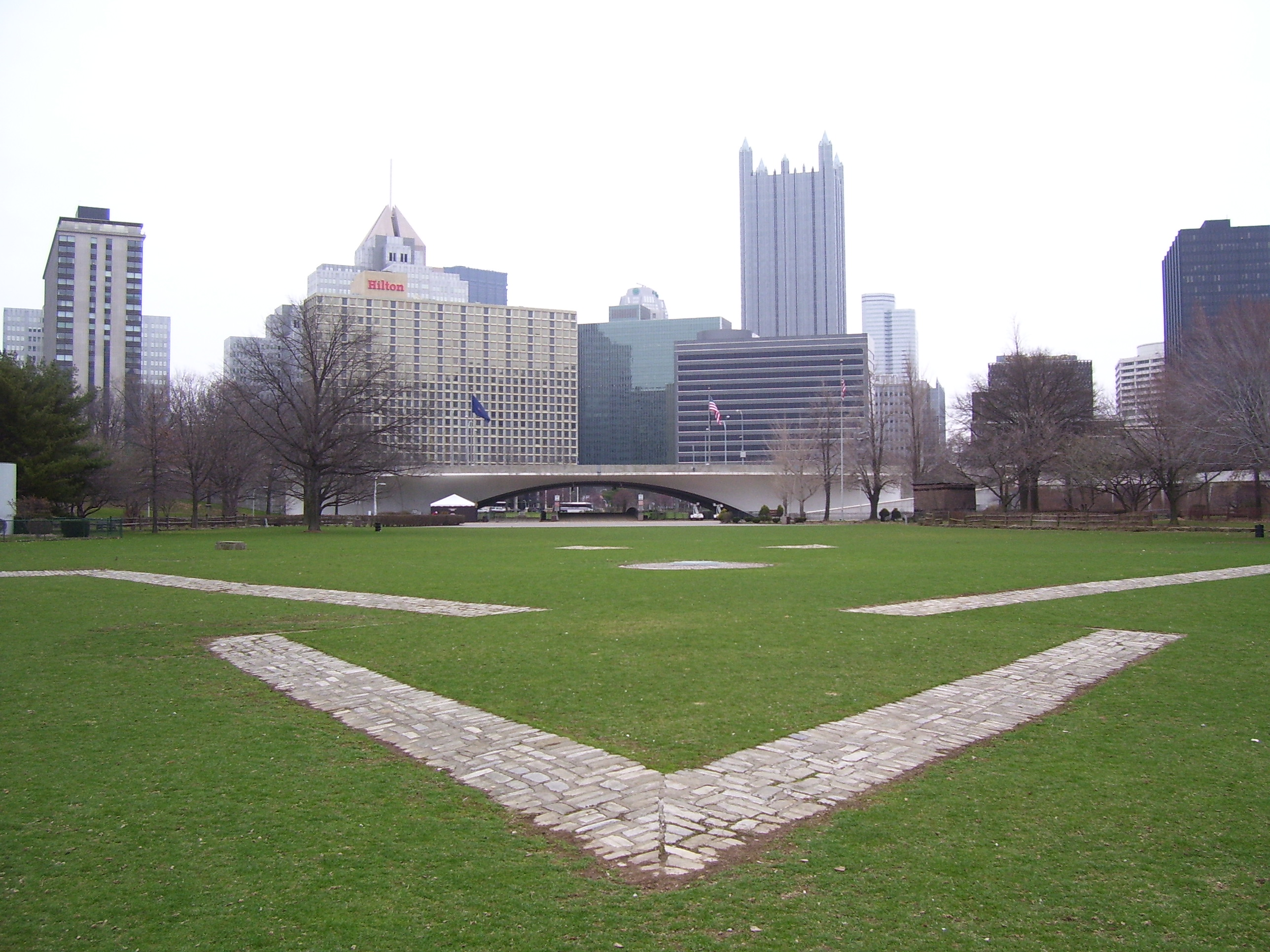 Outline of Fort Duquesne, Point State Park, photographed April 2006.